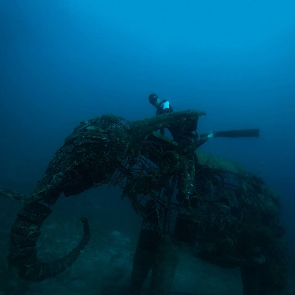 Recreational Freediving in Dahab